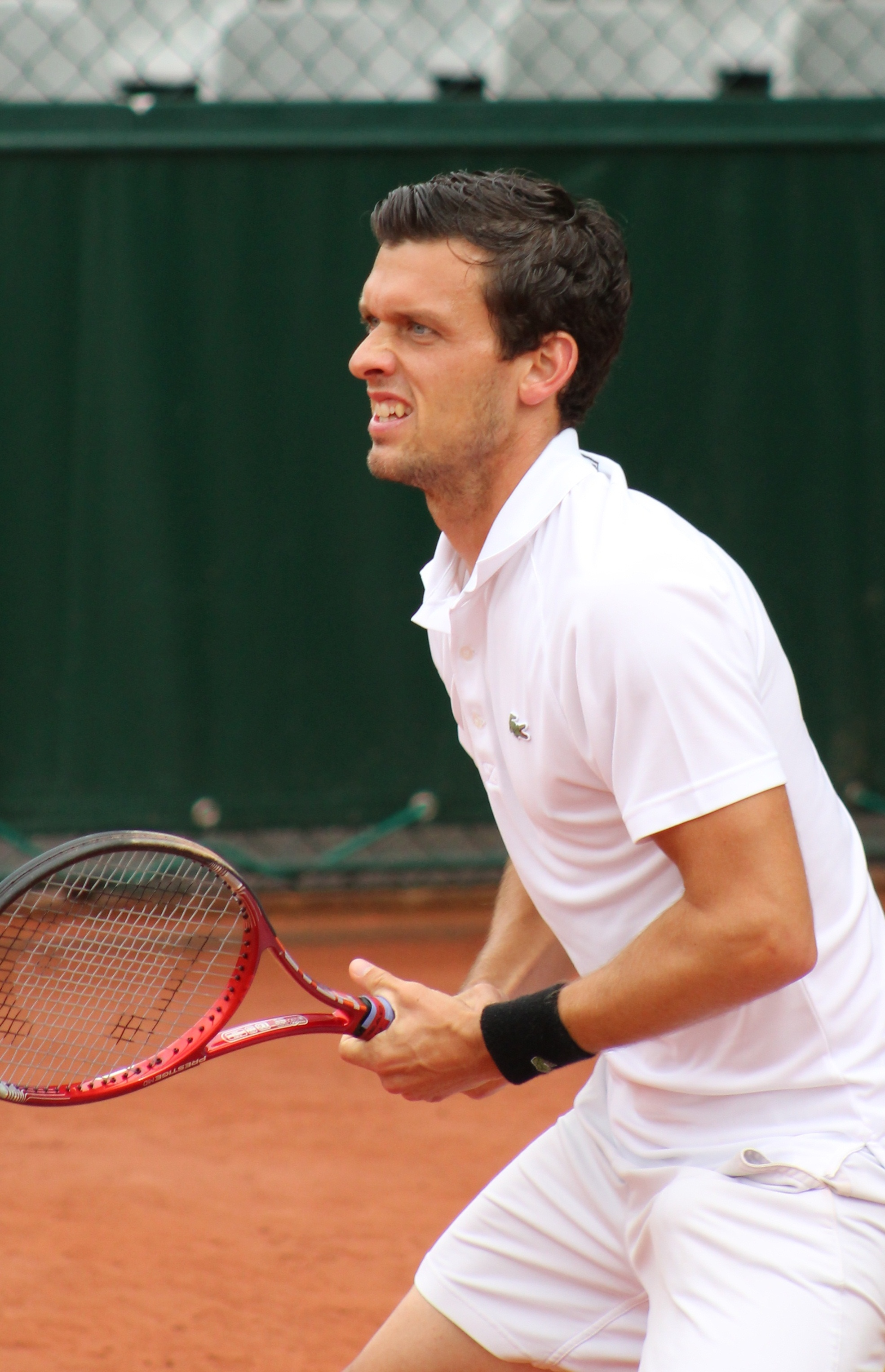 Tobias Kamke playing in Men Doubles at Roland Garros 2013 on 30 May 2013; partner was Florian Mayer (GER); opponents were Treat Huey (PHI) & Dominic Inglot (GBR)